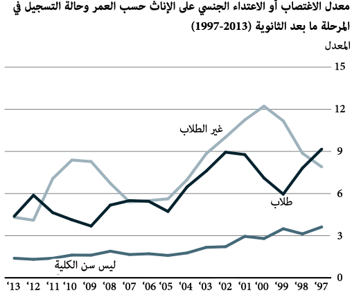 Rate of rape or sexual assault for females, by age and post- secondary enrollment status, 1997–2013